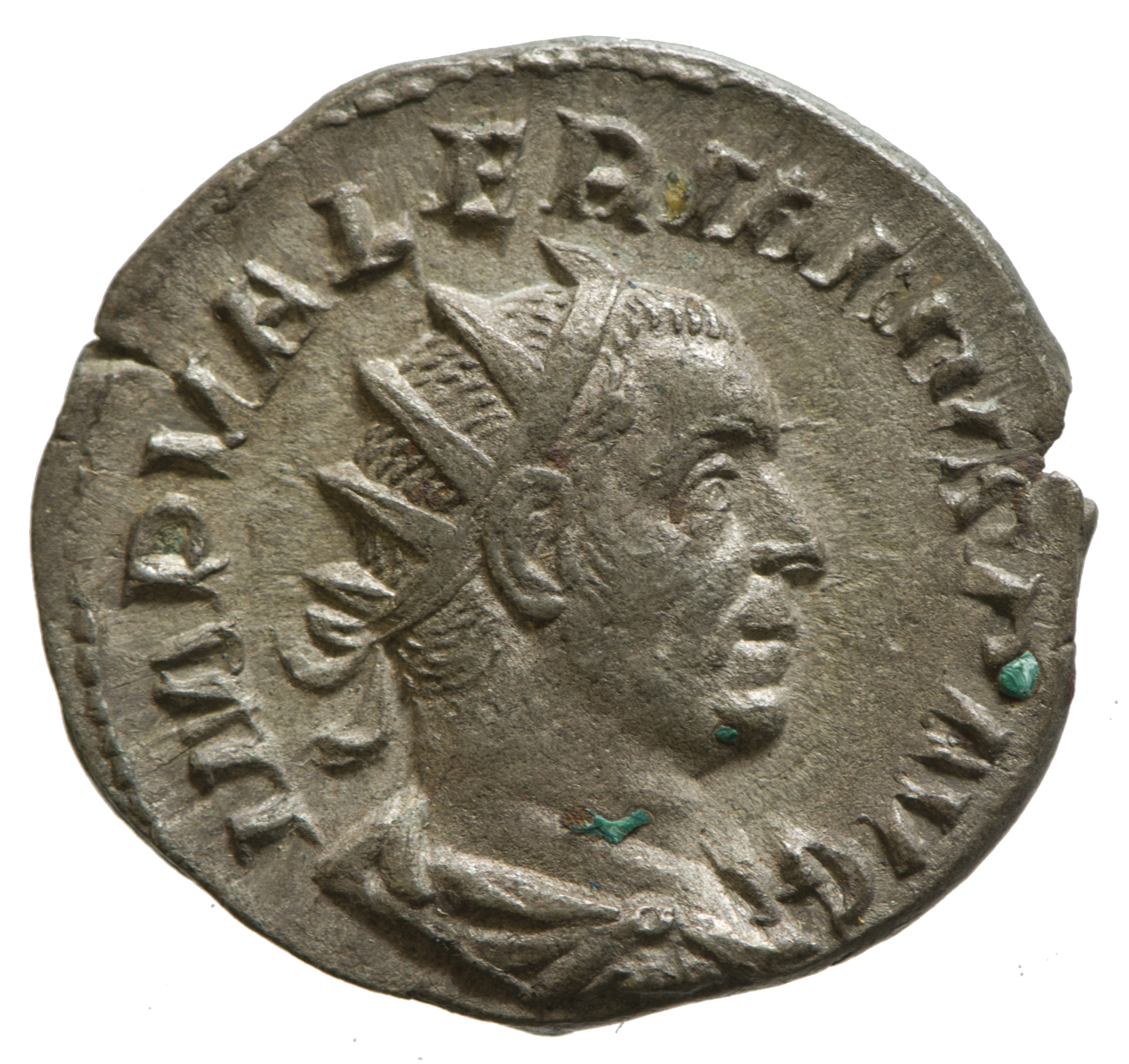 Obverse (front) of a radiate of Valerian head facing right radiate, draped